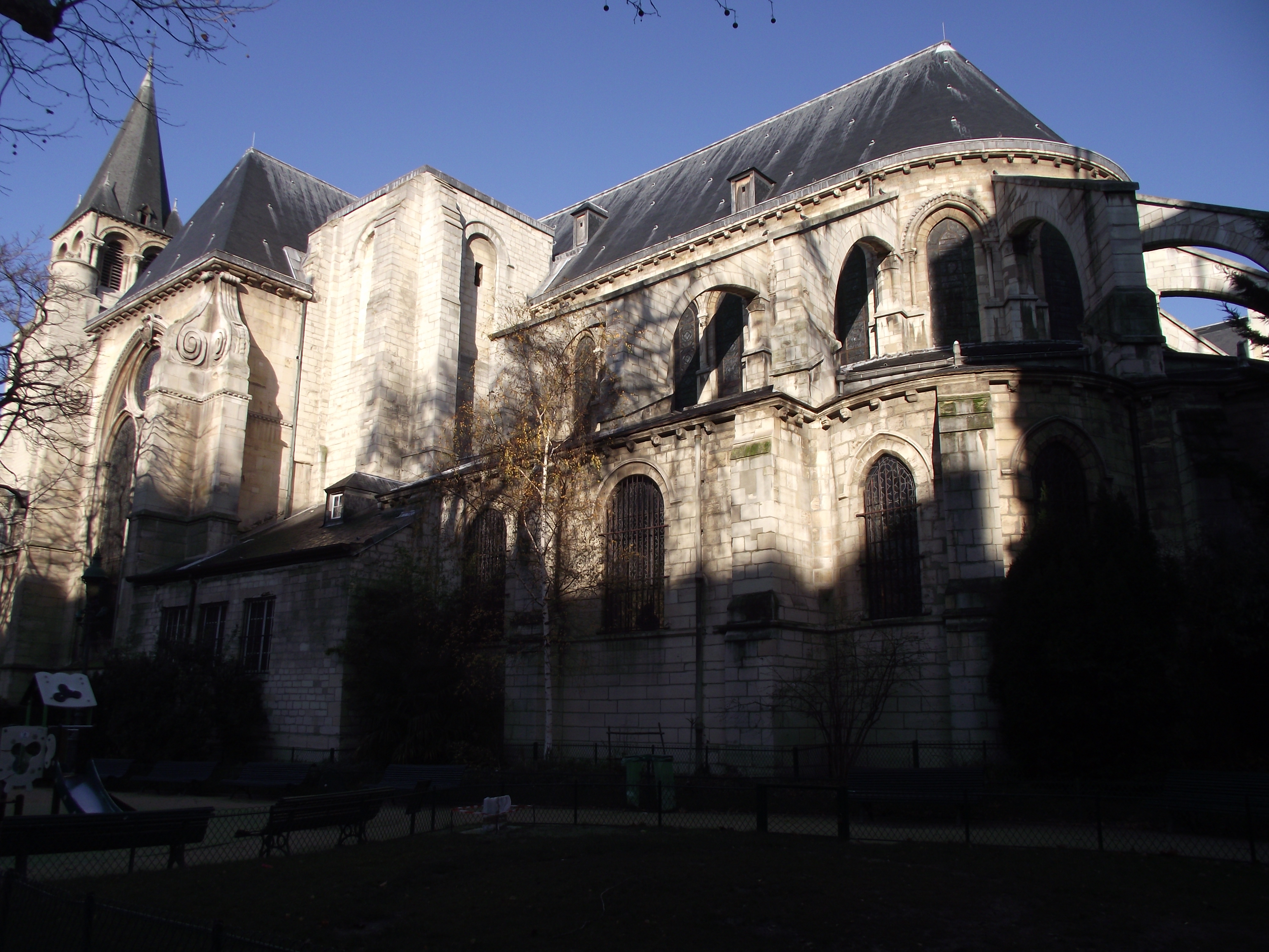 Paris, Abbey of Saint-Germain-des-Prés, 1163